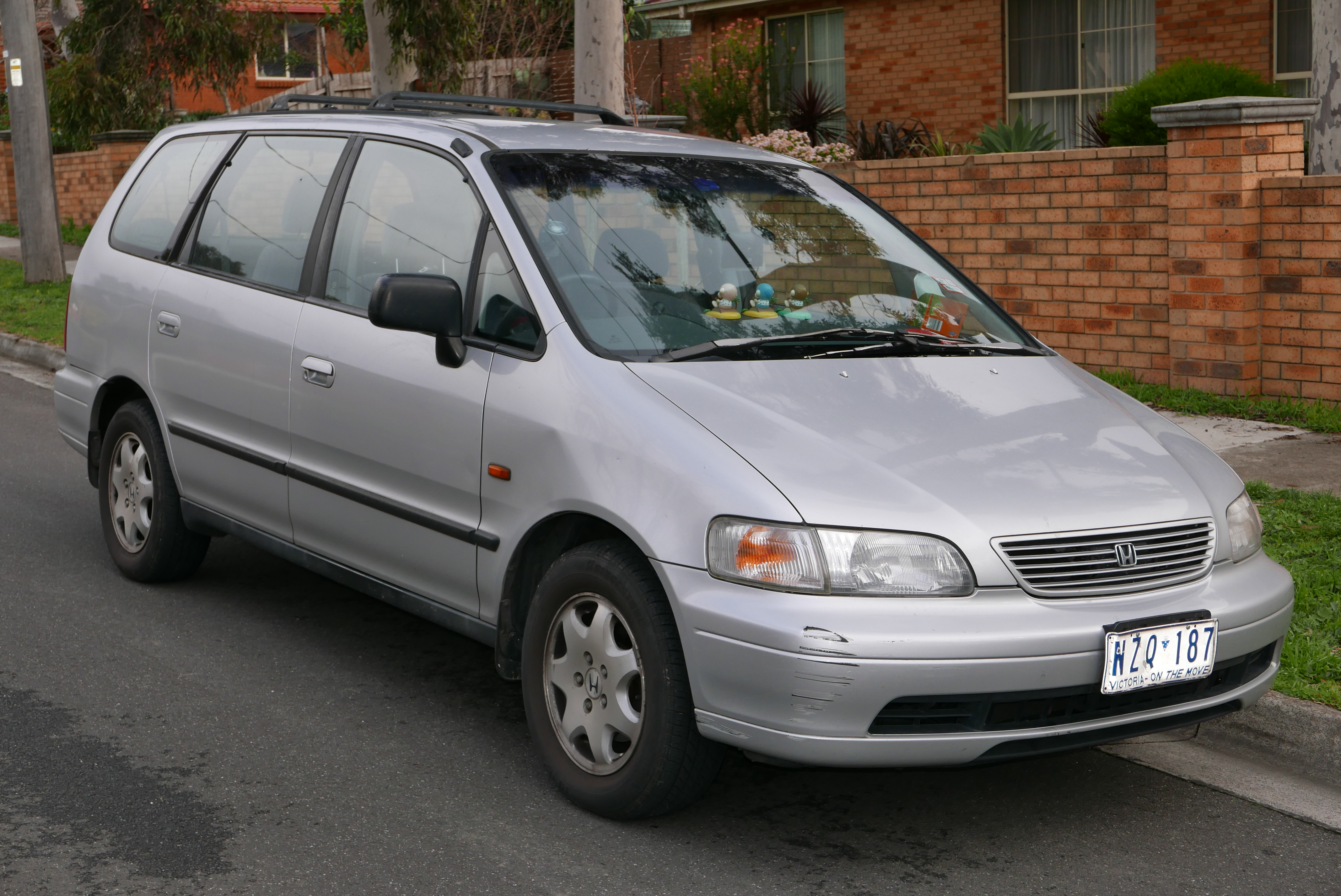 1996 Honda Odyssey van. Photographed in Blackburn North, Victoria, Australia. Vehicle registration enquiry results Jurisdiction Victoria Registration NZQ187 Chassis code JHMRA18800C103982 Engine code F22B62800891 Compliance date 1996-09 Year of manufacture 1996